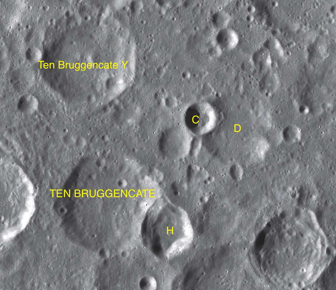 Part of the chart LAC-84 used for the presentation